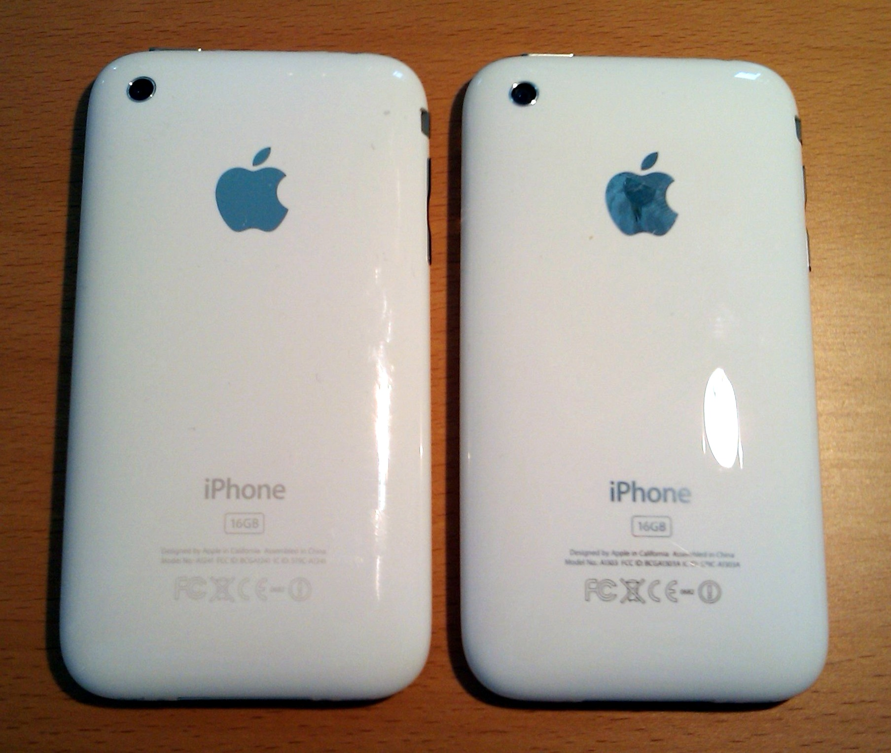 The back of the iPhone 3G (left) and iPhone 3G S. the latter has shiny text. Both iPhones shown are white 16 GB.